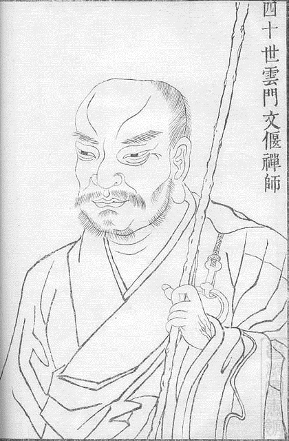 Yunmen Wenyan (830-902). Woodcut, Ching dynasty; caption:「四十世雲門文偃禪師」